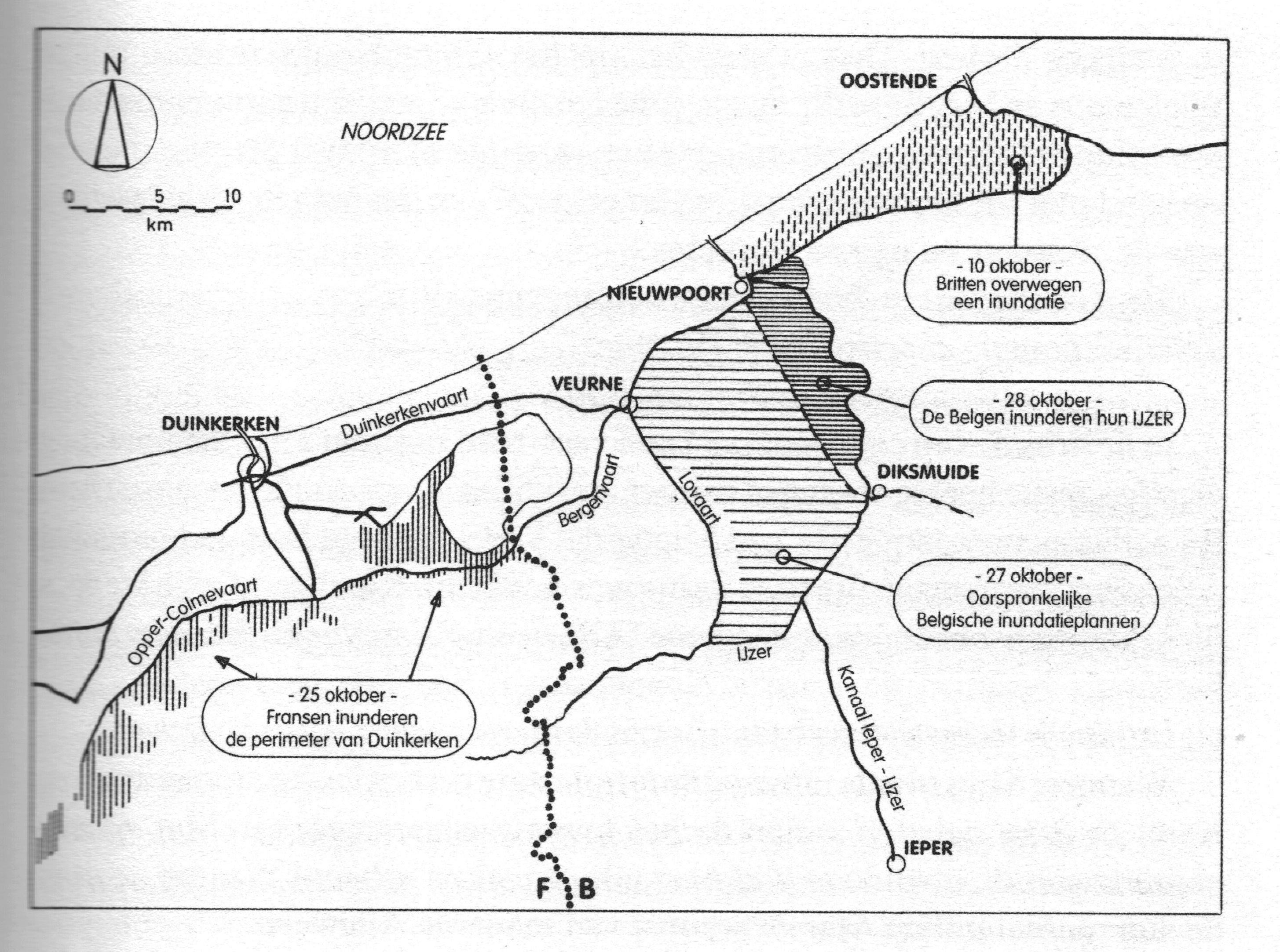 Several inudations were planned; some were executed